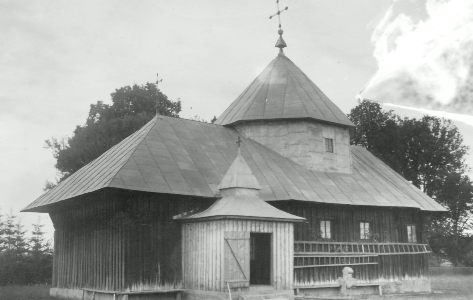 Church in Stăneștii de Jos, Cozmeni, Ukraine (image from the archive of the Metropolitan of Moldavia, 1936, free of copyright)